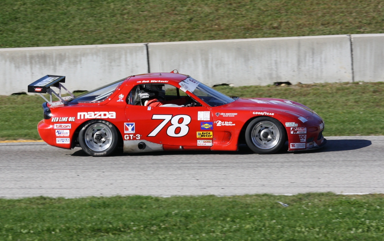 The GT3 winner in the 2010 SCCA National Championship Runoffs at Road America, Robert Warkocki in a Mazda RX-7.